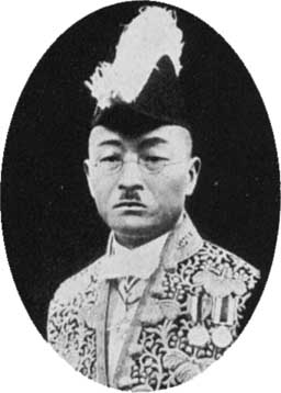 Baiichi Komatsu, 3rd director of the Mito Higher School.